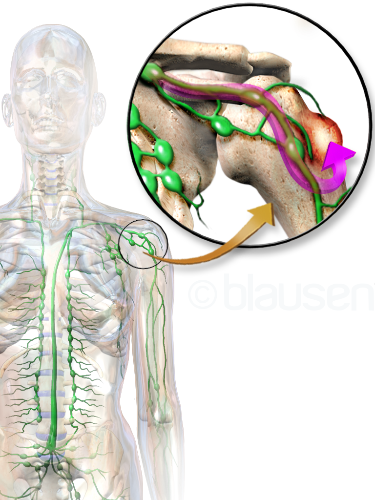 Bone Cancer (Metastatic). See a related animation of this medical topic.